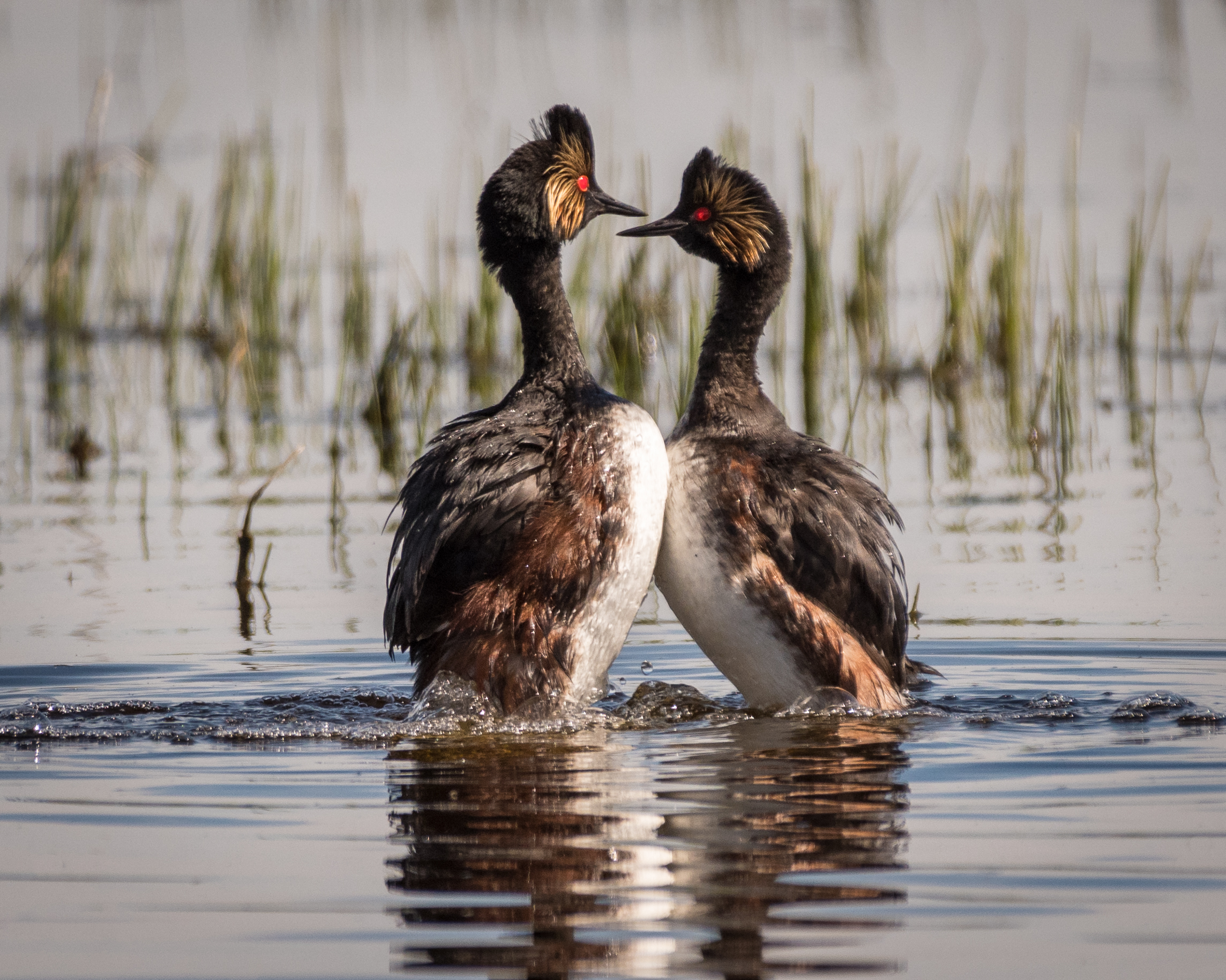 Tule Lake National Wildlife Refuge, Klamath Basin, California